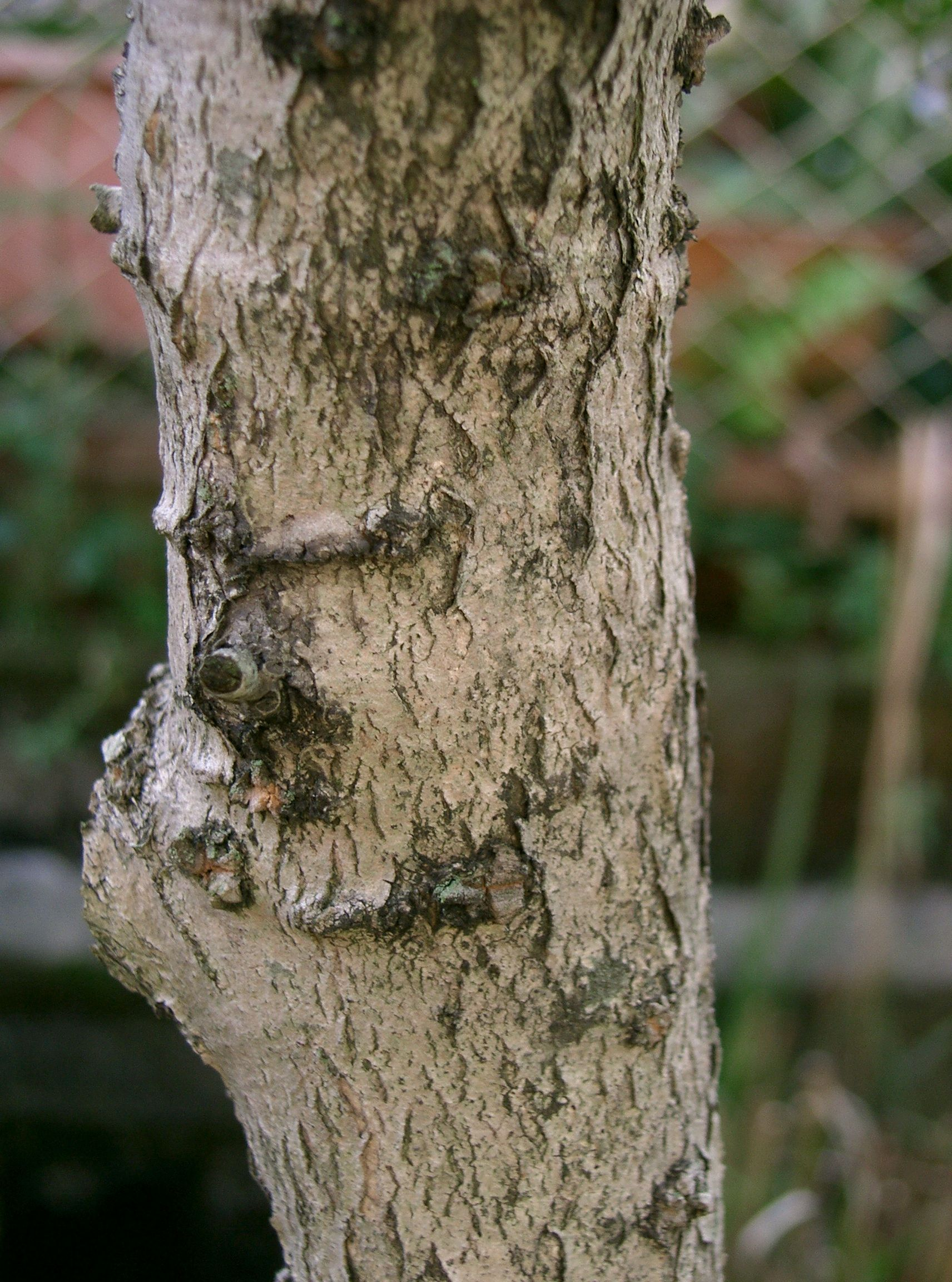 Osmanthus heterophyllus